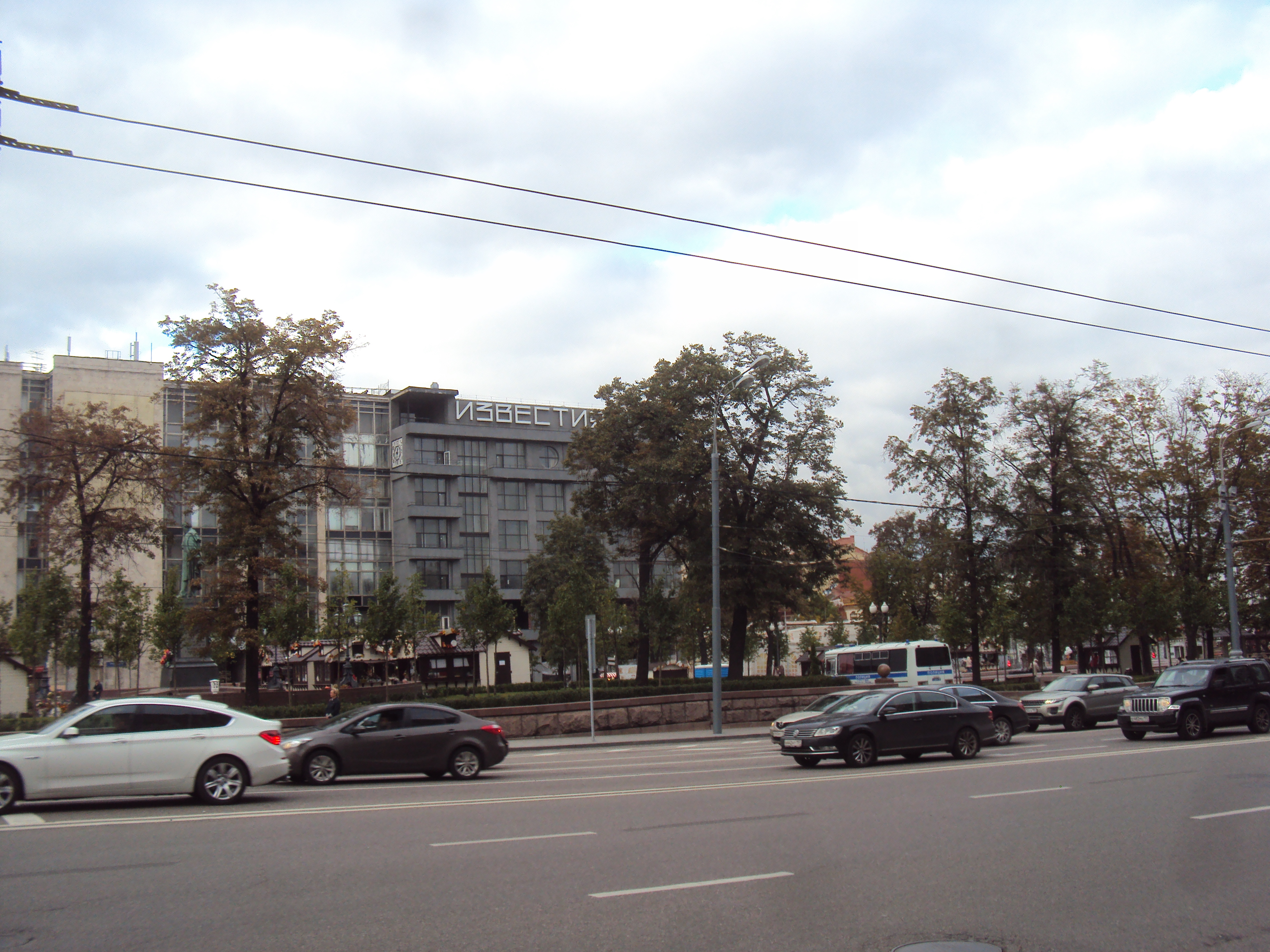 The building of the newspaper Izvestia